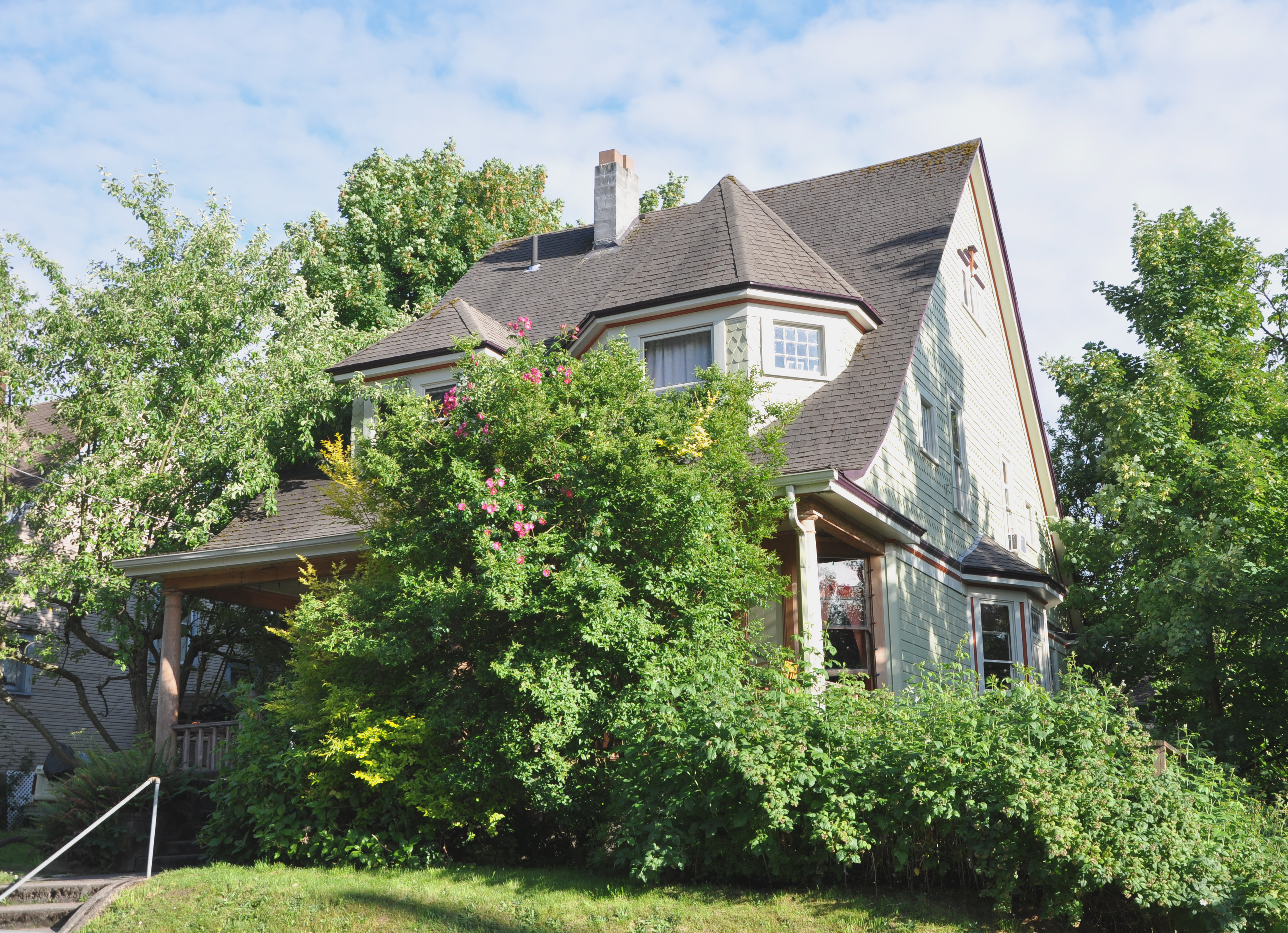 Capt. George Raabe House in Portland in the U.S. state of Oregon. The structure is listed on the National Register of Historic Places.